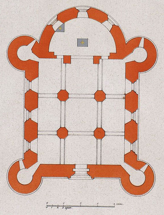 Church in Muravanka